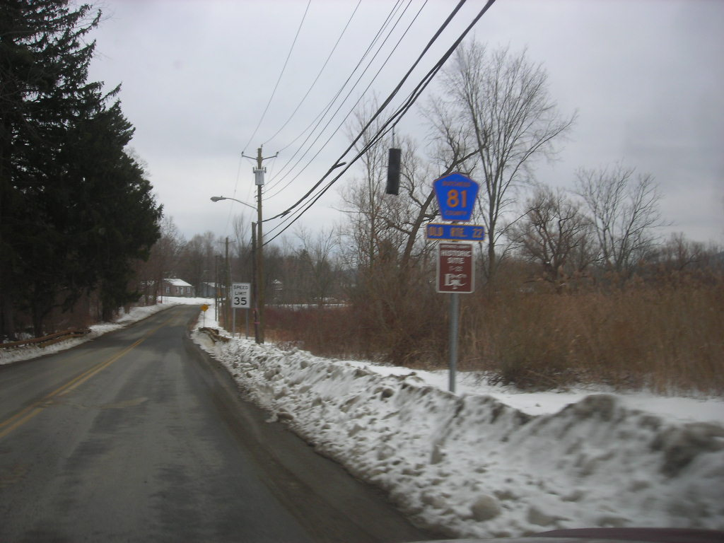 Dutchess CR 81 with a blade sign depicting "Old Route 22" in Wassaic, New York.